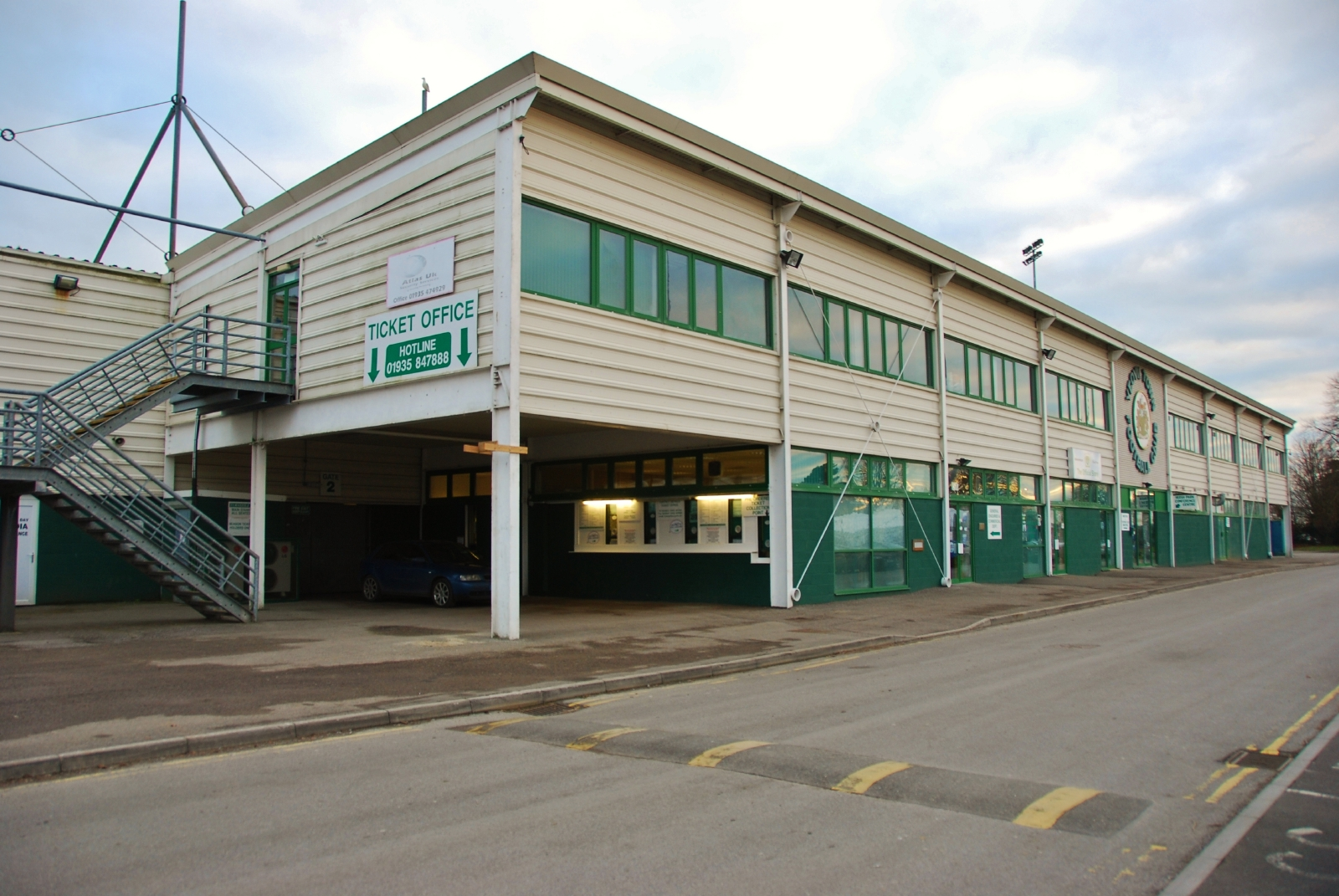 Yeovil Town Football Club